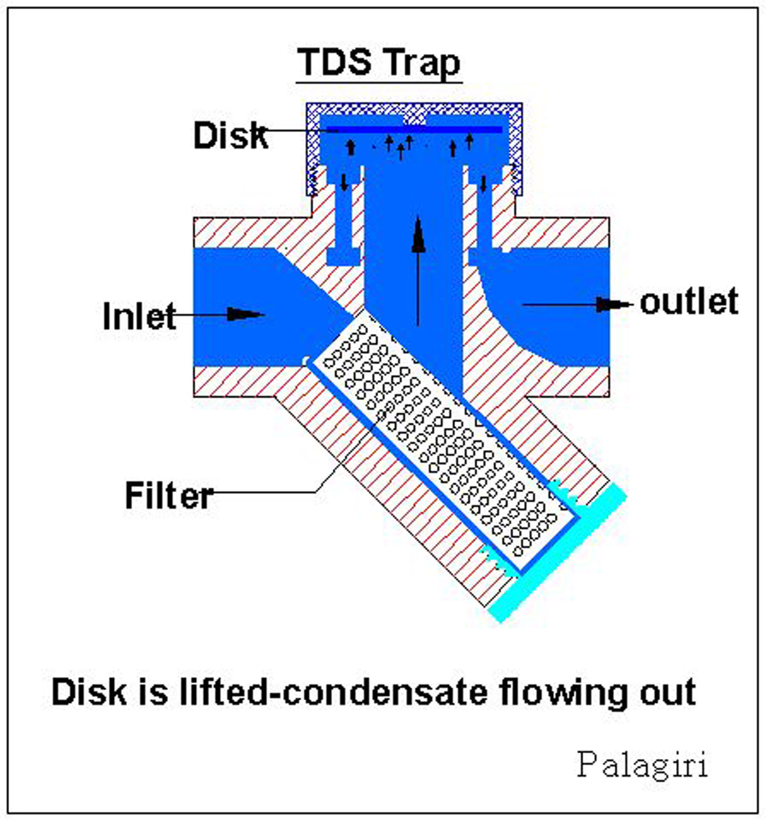 Thermo dynamic steam strap